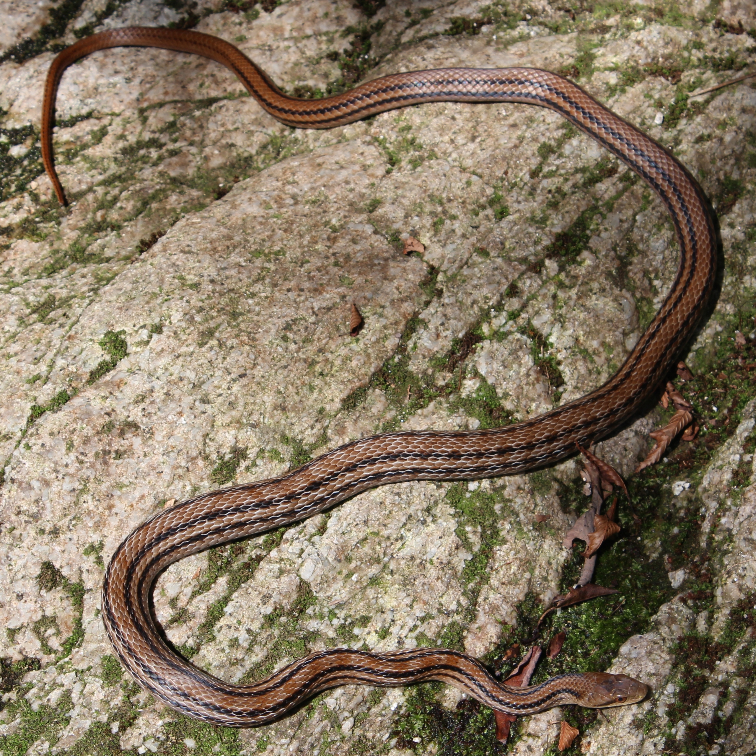 Elaphe quadrivirgata (Japanese striped snake), in Mount Gozaisho Japan.